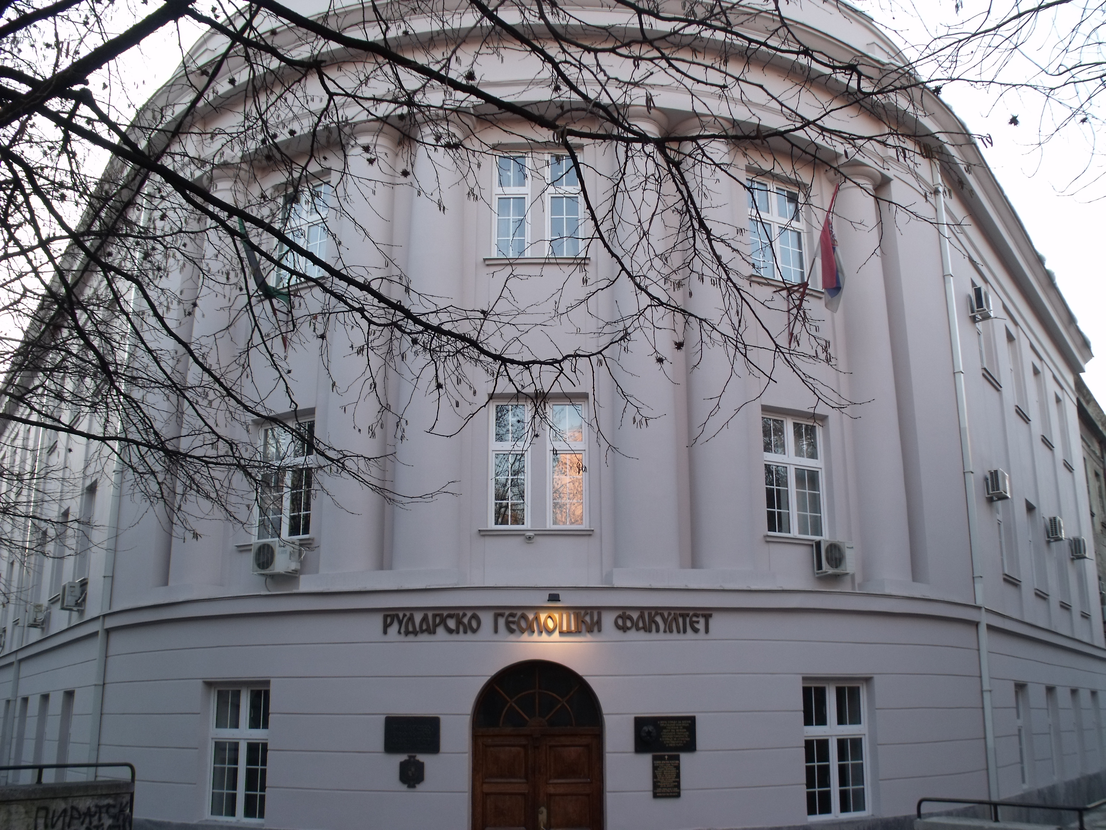 Faculty of Mining and Geology of the University of Belgrade